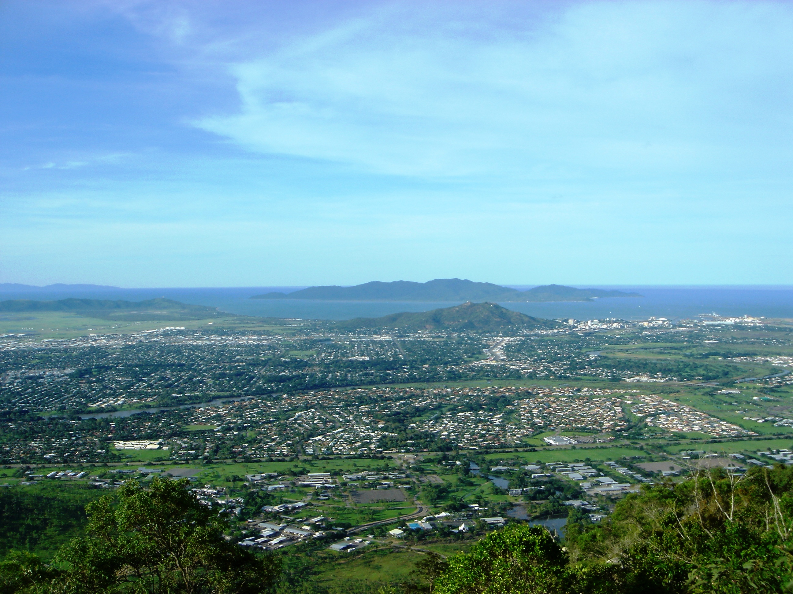 Panorama of Townsville from Mt Stuart